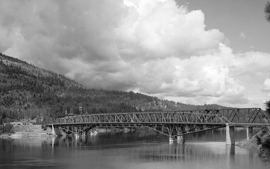 Columbia River Bridge at Kettle Falls, U.S. Route 395 spanning Columbia River, Kettle, Falls vicinity (Stevens County, Washington) Object location48° 37′ 34″ N, 118° 07′ 01″ W